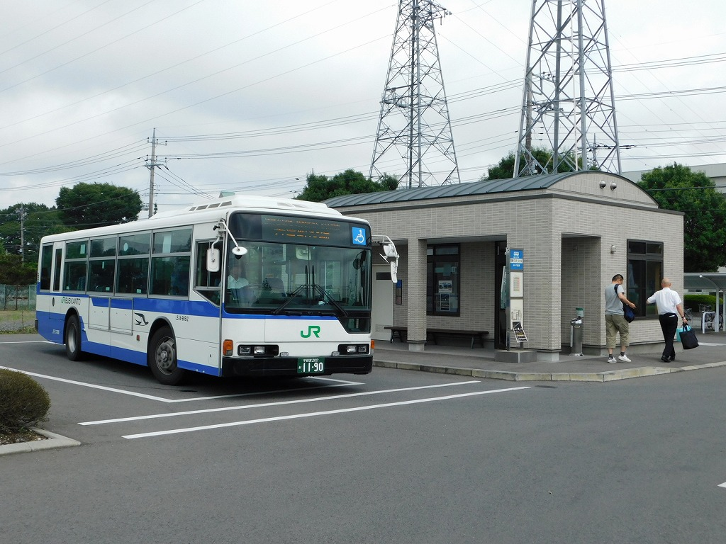 Haga bus Terminal